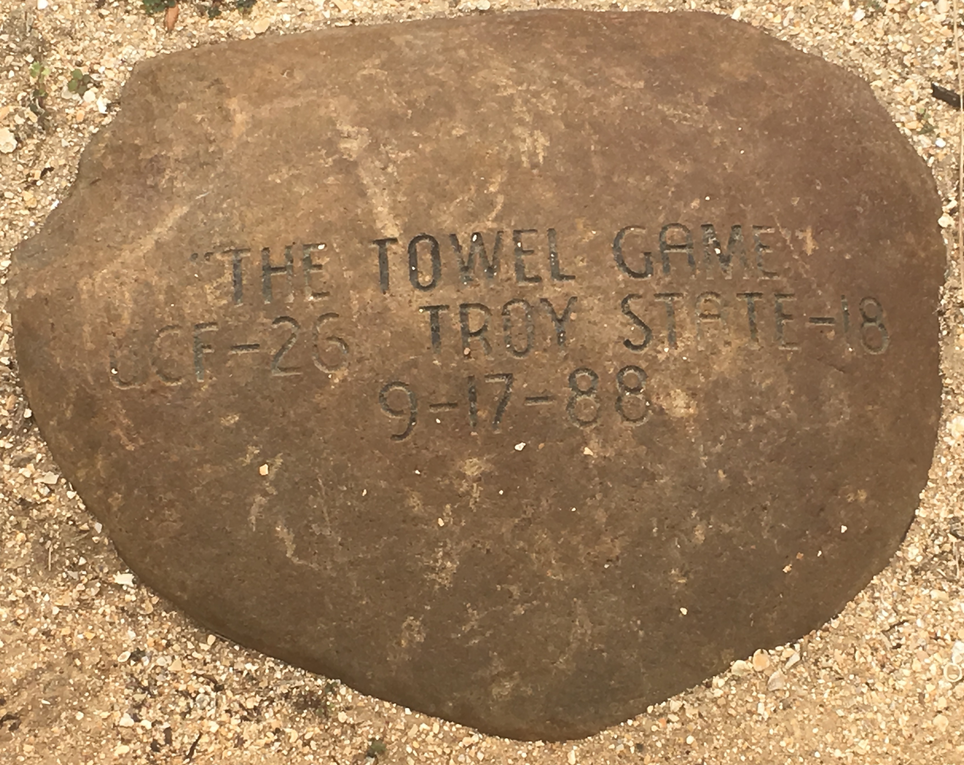 Stone marker at the entrance of Spectrum Stadium on the campus of the University of Central Florida (UCF), marking the famous "Towel" Game" (also known as the "Noise Penalty Game" from 1988.